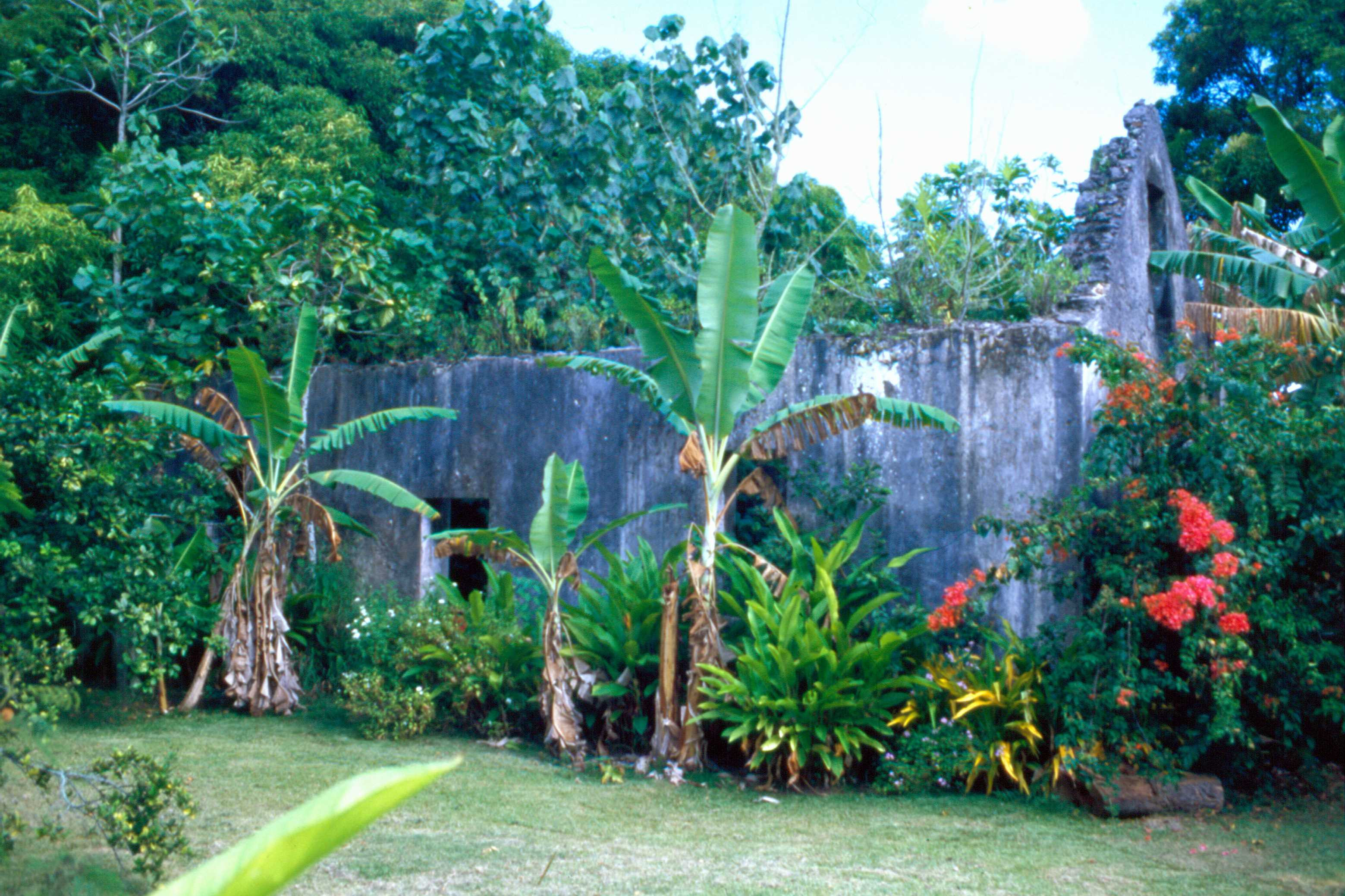 The overgrown ruin of an earlier church on Mangareva, Gambier Islands, French Polynesia